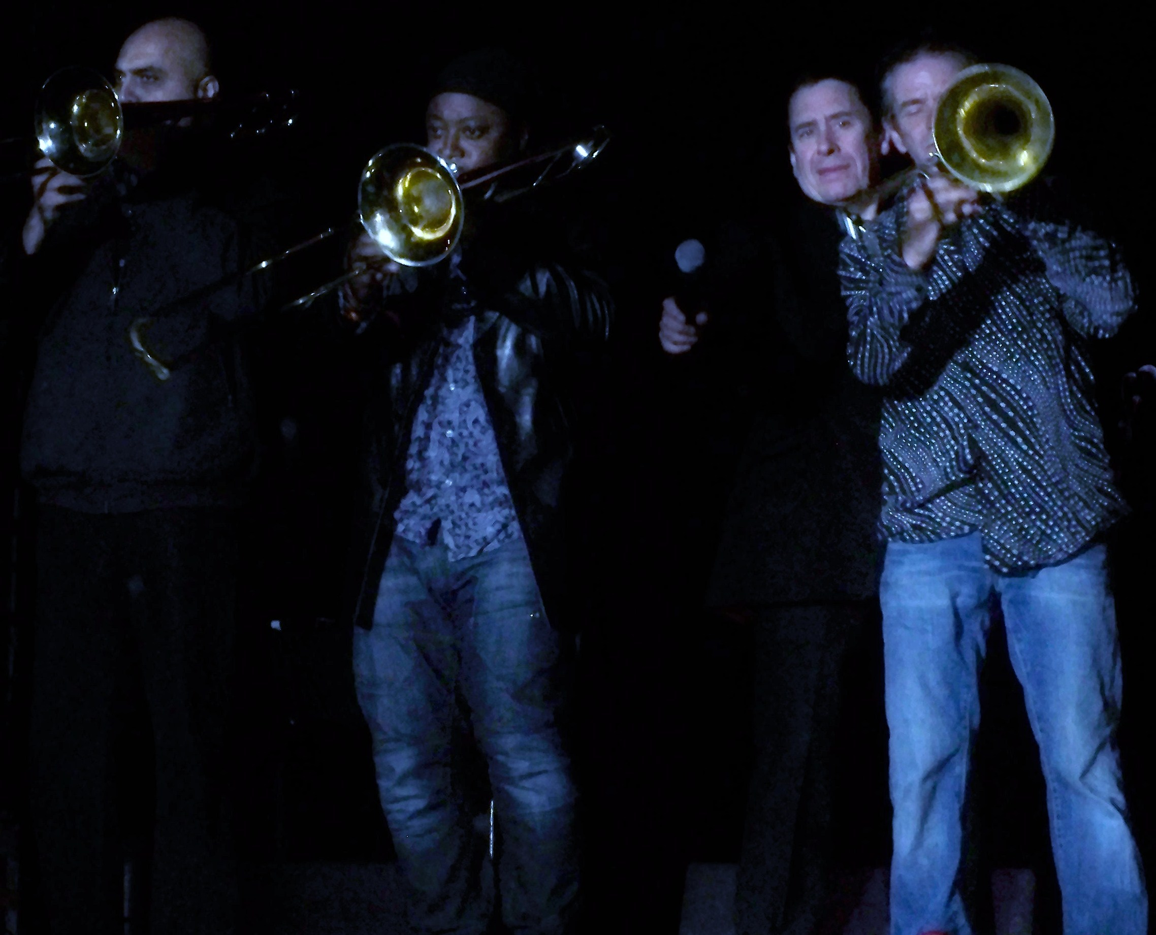 Jools Hollands' horn section at Guilfest 2012.